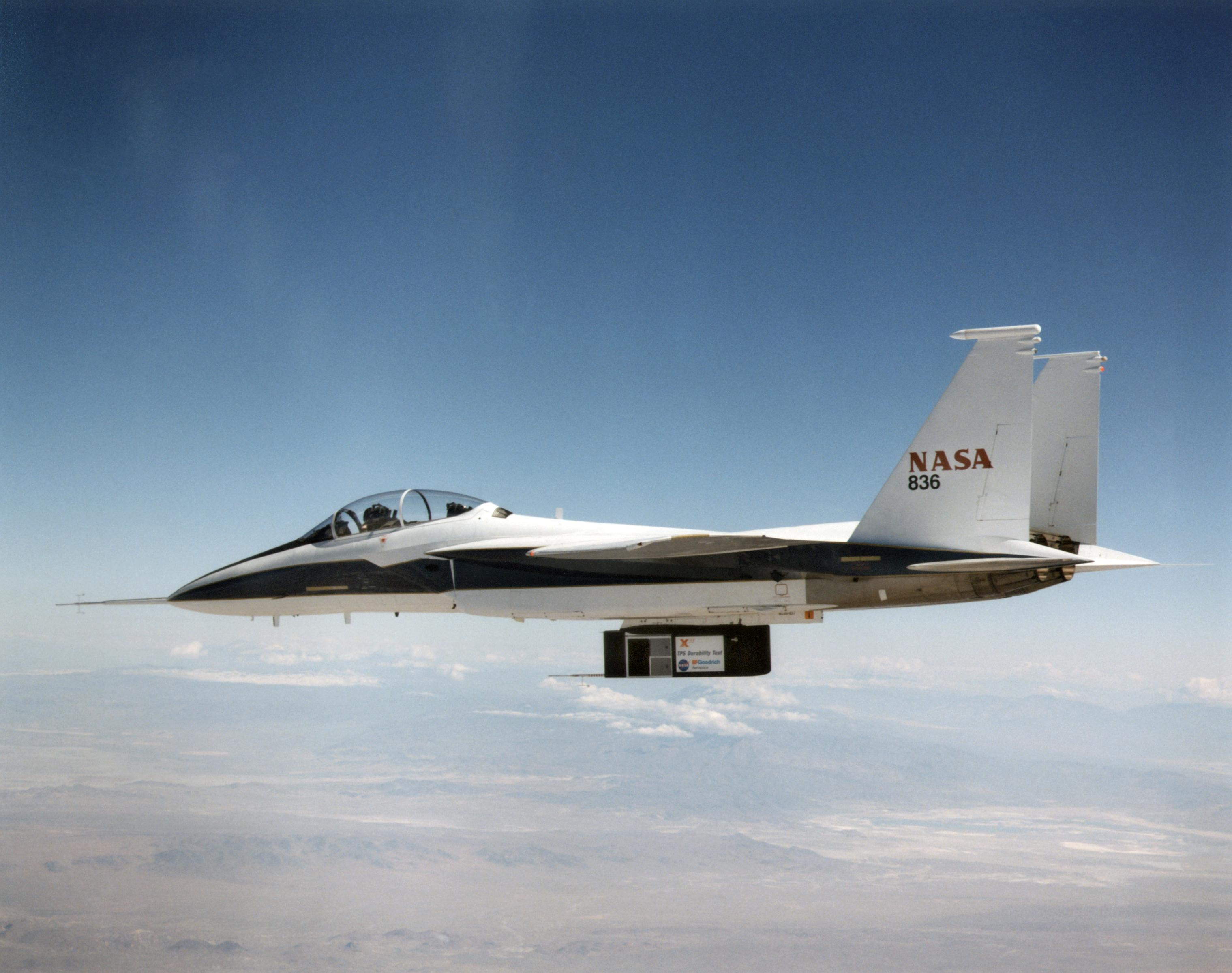 The F-15B in flight with the X-33 Thermal protection System (TPS) fixture mounted under its fuselage.